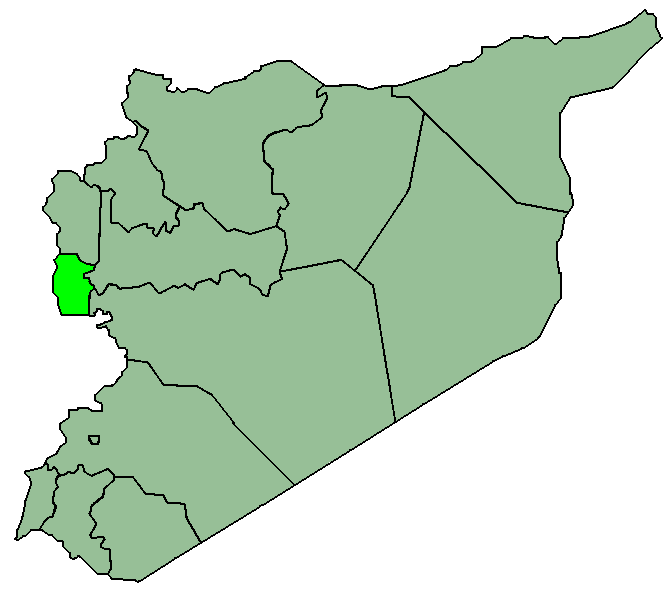 The Syrian governorateof Tartus.